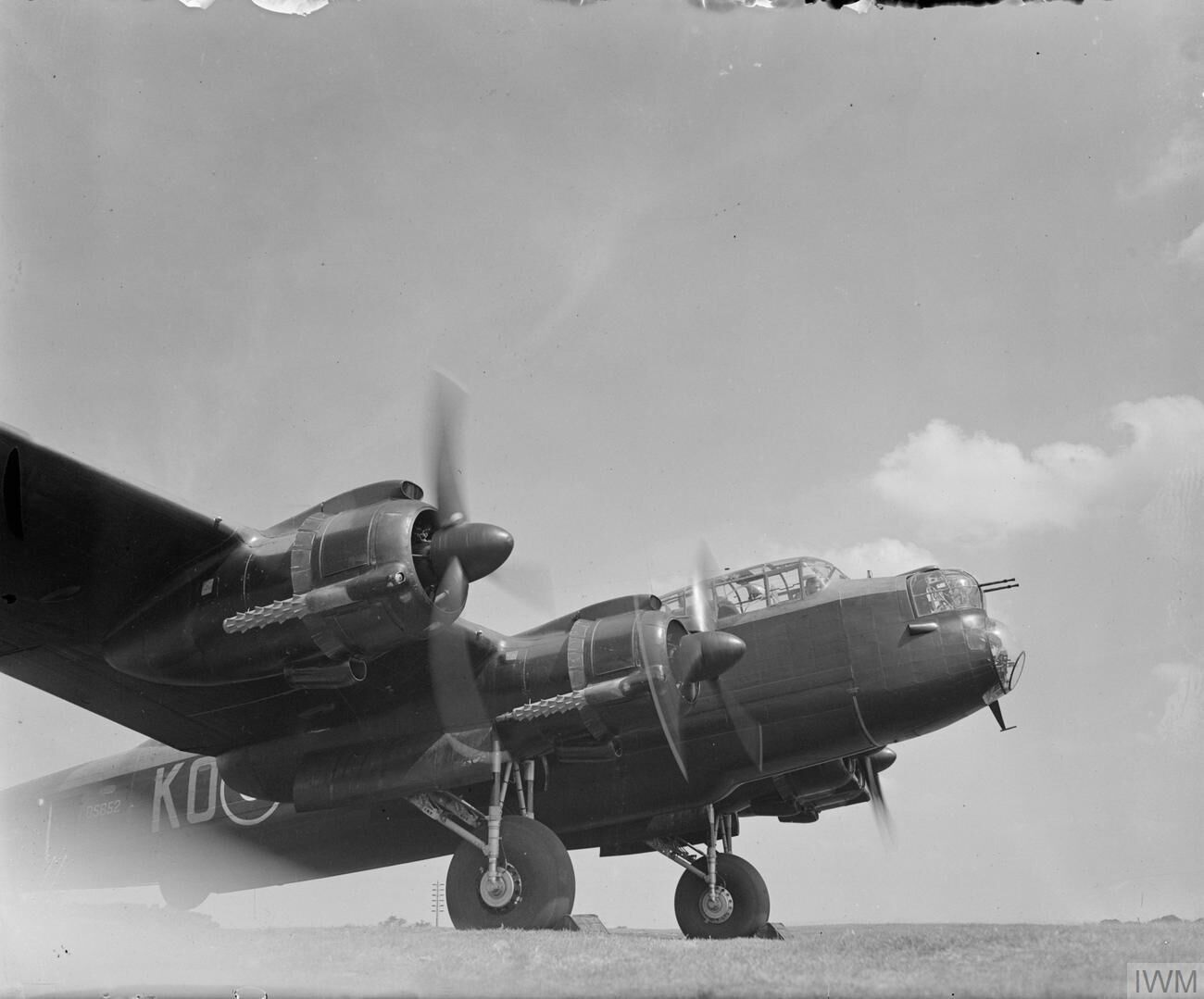 IWM caption : Lancaster B Mark II, DS652 'KO-B', of No. 115 Squadron RAF, undergoing a test of its Bristol Hercules VI sleeve-valved radial engines in a dispersal at East Wretham, Norfolk. DS652 failed to return from a raid on Bochum, Germany on 12/13 June 1943.